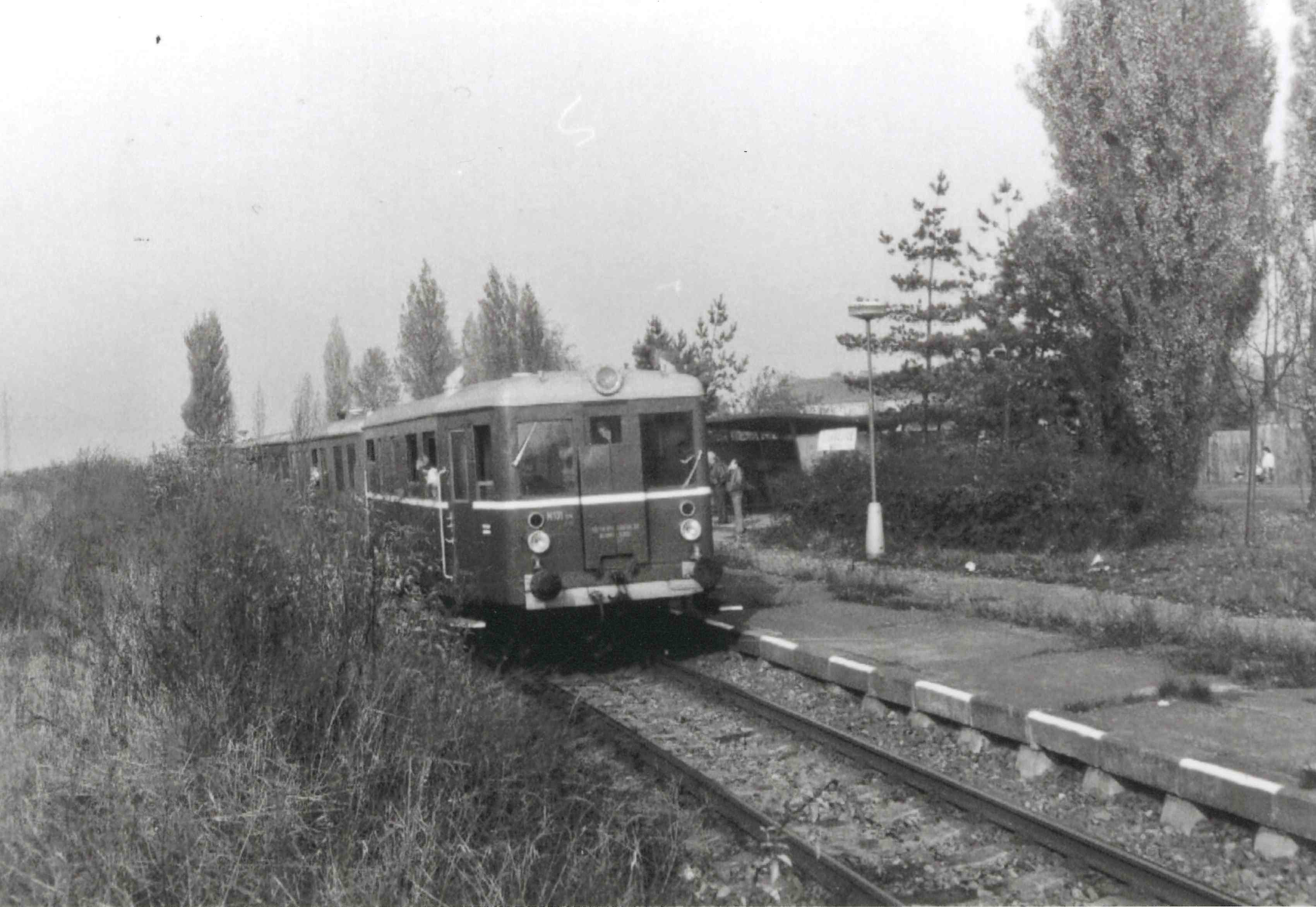 Celakovice zastavka